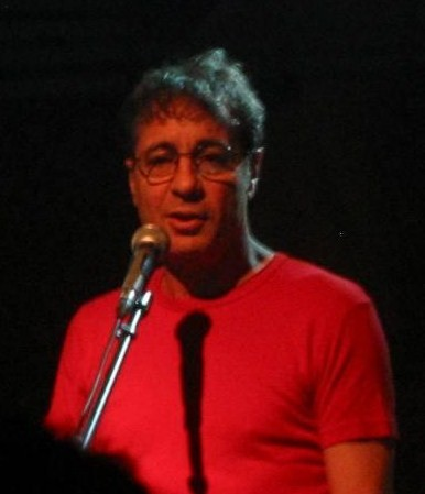 Yehonatan Gefen